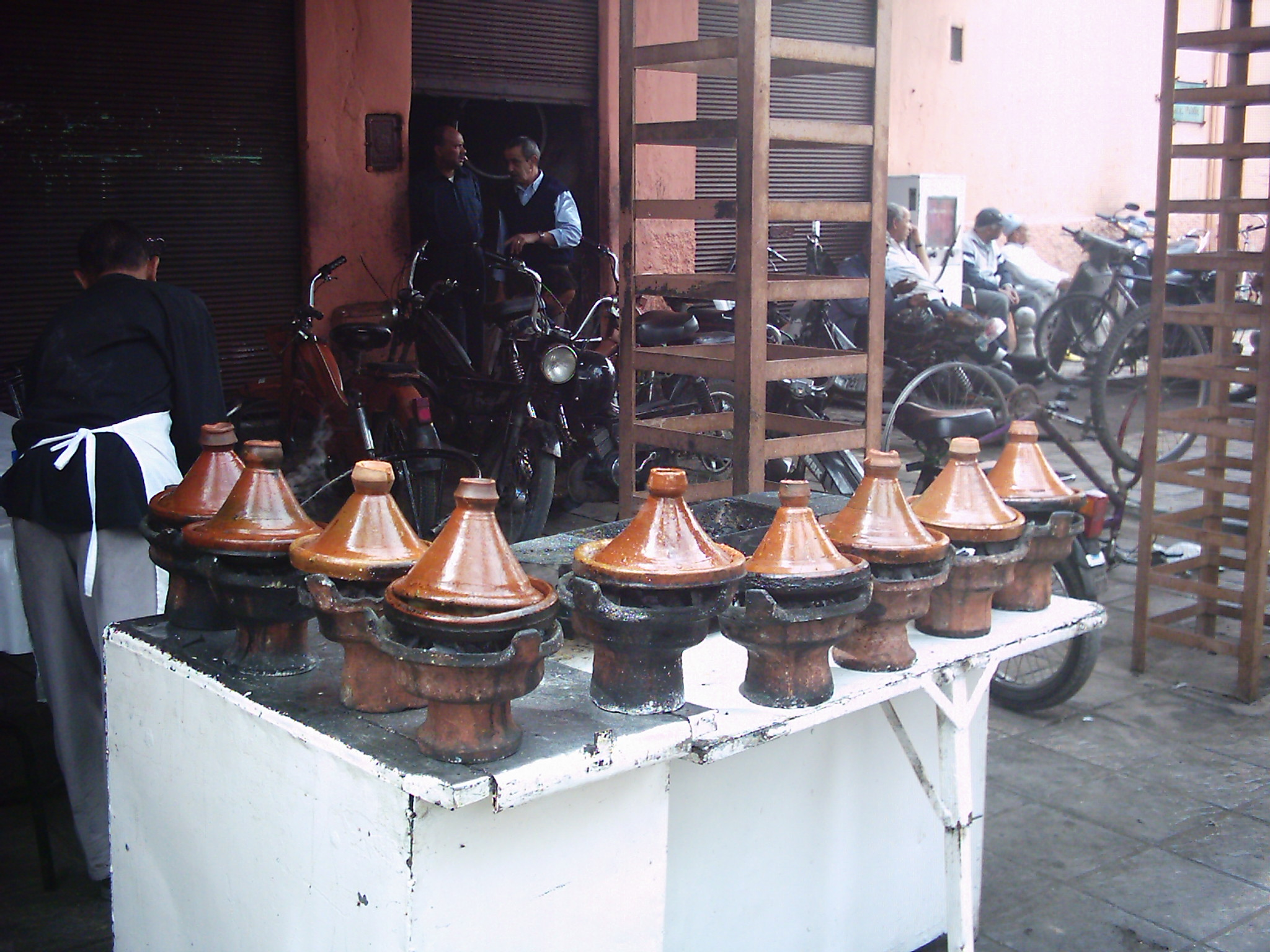 Cooking of Tajine at Marrakech